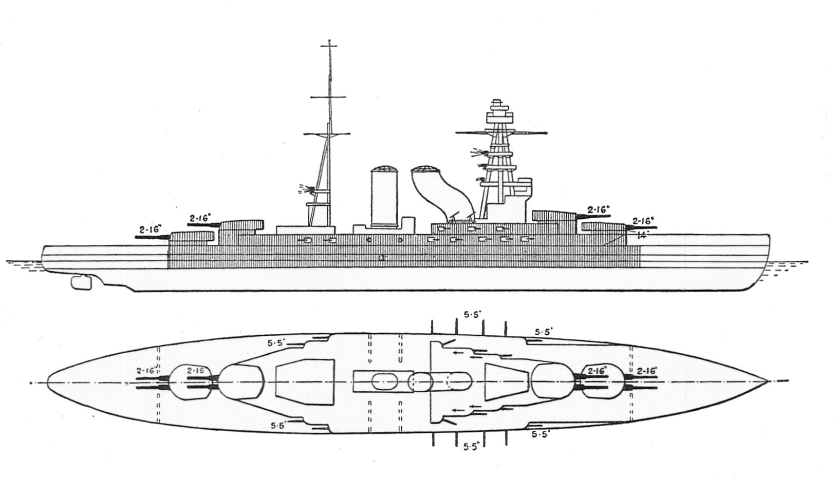 Fig. 21 Outline of Japanese Battleships, Nagato & Mutsu